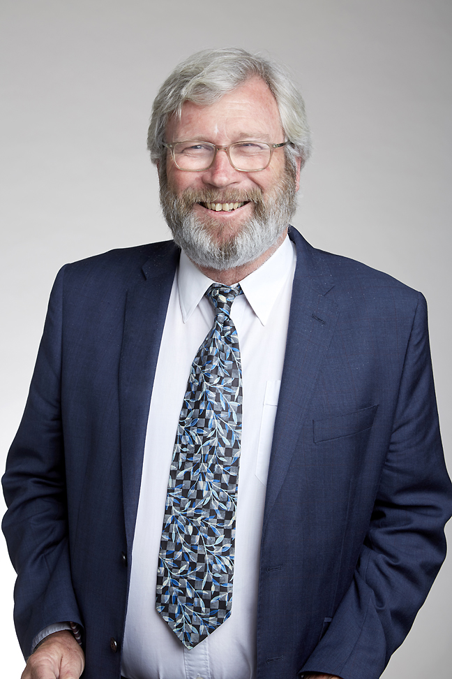 Gerard James Milburn is a theoretical quantum physicist notable for his work on quantum feedback control, quantum measurements, quantum information, open quantum systems, and Linear optical quantum computing Attribution: The Royal Society